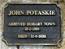 Photo of Joseph Potaski's memorial